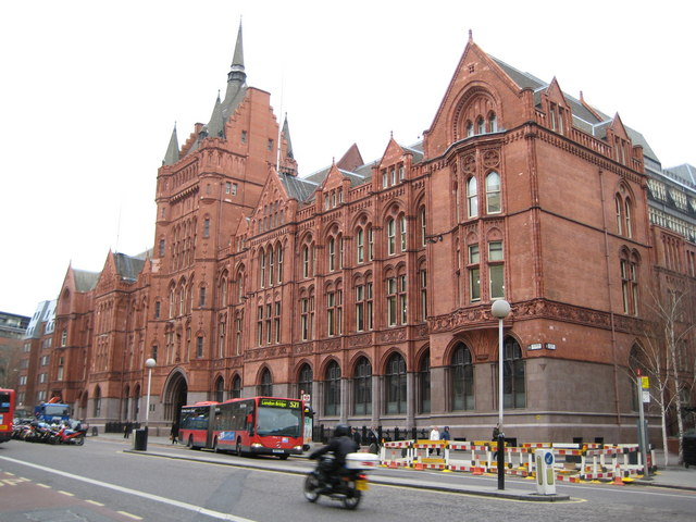 Holborn: Prudential Assurance building, 142 Holborn Bars, EC1 This iconic Victorian Gothic building used to appear on the cover of all the insurance policy passbooks that the "Man from the Pru" used to periodically come to your house to update. The structure was originally built between 1879 and 1901 over several phases to the designs of Alfred Waterhouse, and intended to reflect the Prudential's status as the largest life assurance company in Britain, having achieved this position since it was founded in 1848. There were several later additions but the building appears as a coherent whole because of the sympathetic use of very similar building materials of strictly similar terracotta colours in the later additions. The building is Grade II* listed.